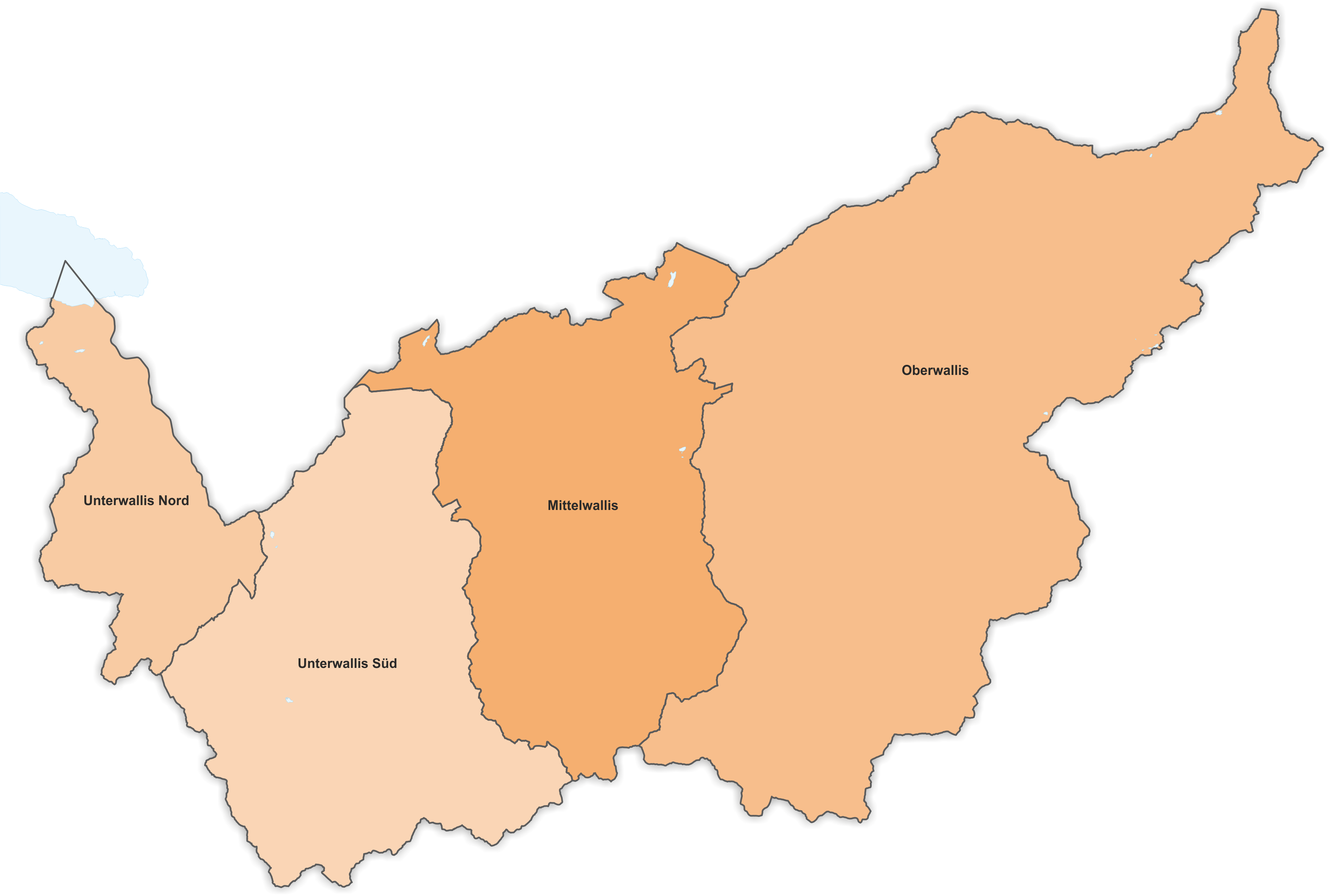 National council constituencies in the canton of Valais in 1848